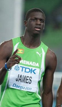 Kirani James during 2011 World championships Athletics in Daegu